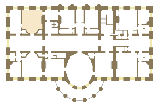 Floor plan of the second floor of the White House showing the location of the President's Dining Room. 21.02.07, Jim Hood